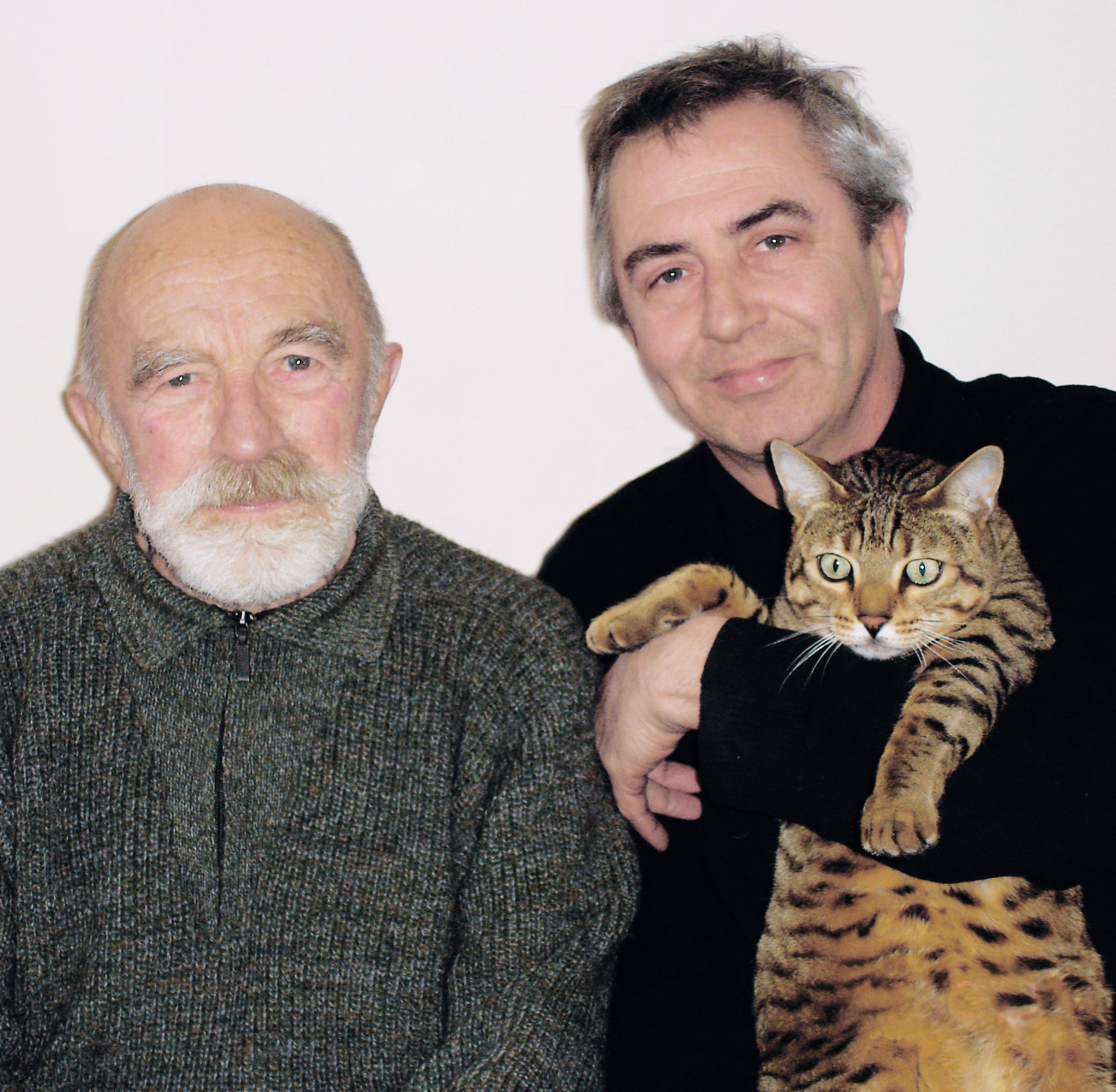 Bernard Parmegiani-Christian Zanesi